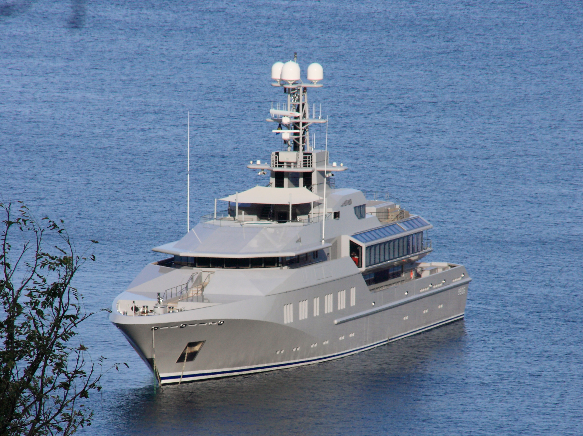 Superyacht SKAT berthed in Pitons Bay, St Lucia